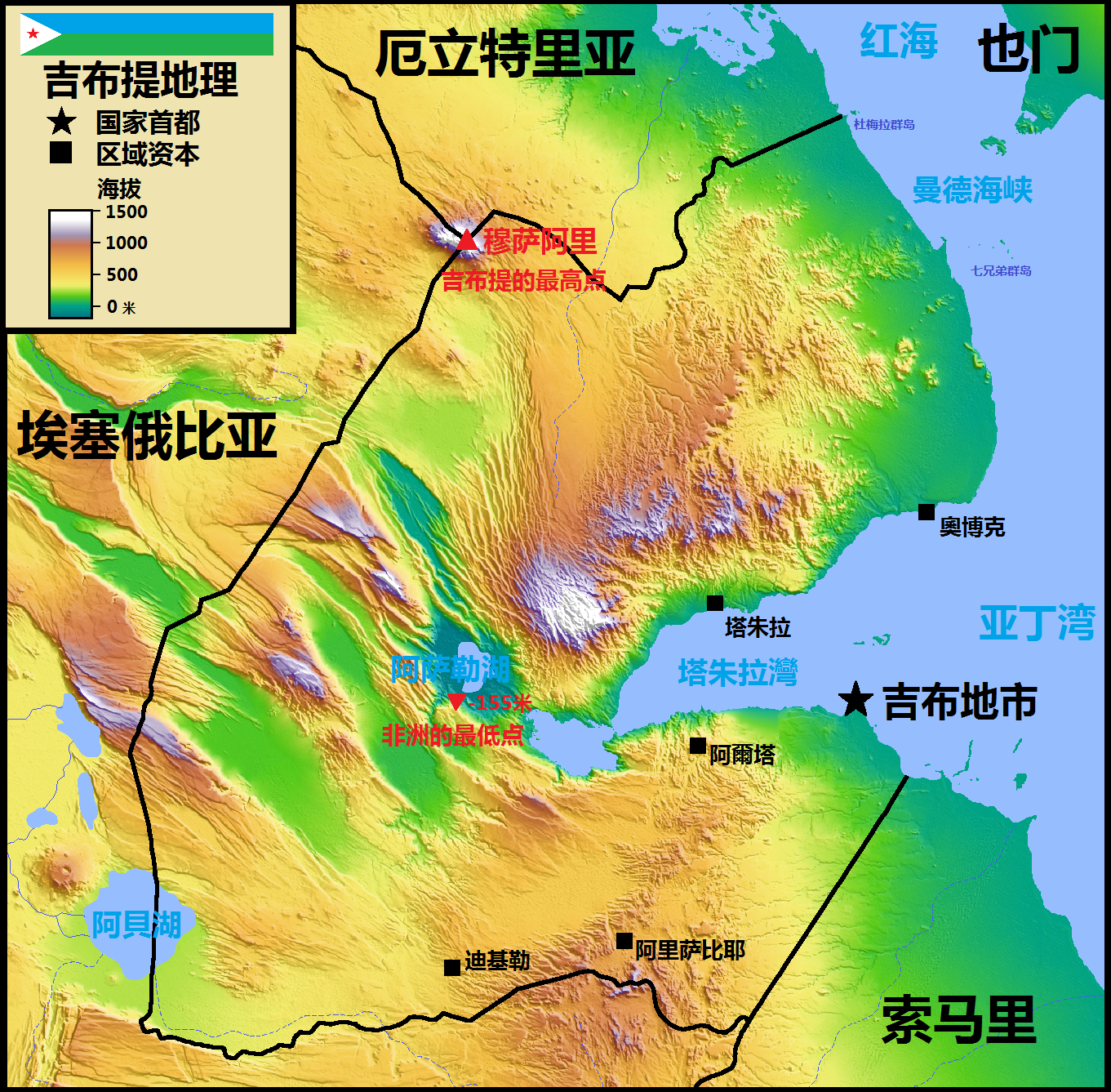 Map of Djibouti in Chinese